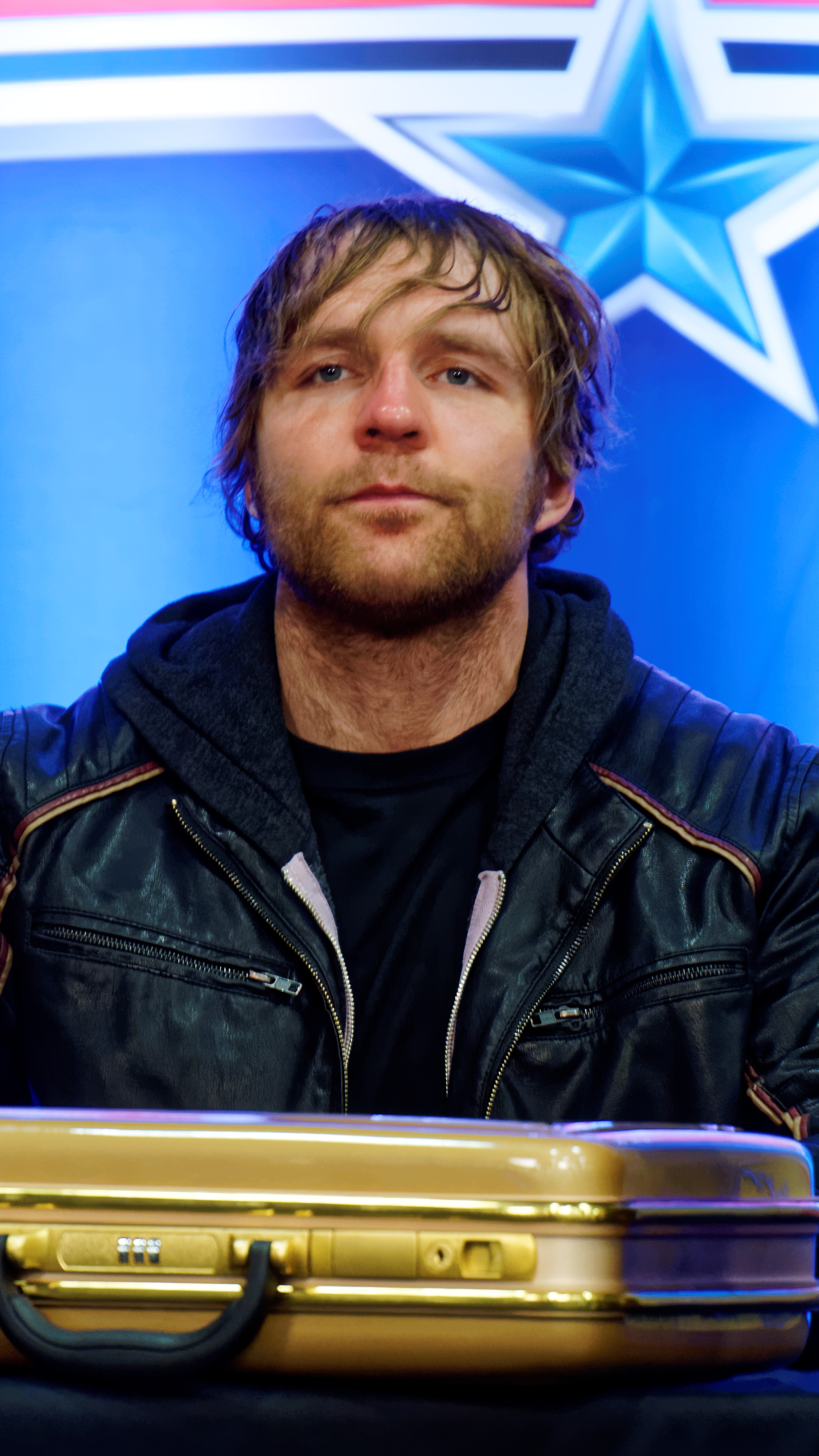 WrestleMania Axxess takes over the Kay Bailey Hutchison Convention Center in Dallas March 31-April 3. Featuring Superstar and Diva meet-and-greets, memorabilia displays and much more, WrestleMania Axxess is one event WWE fans of all ages will want to be part of. Don't miss out!